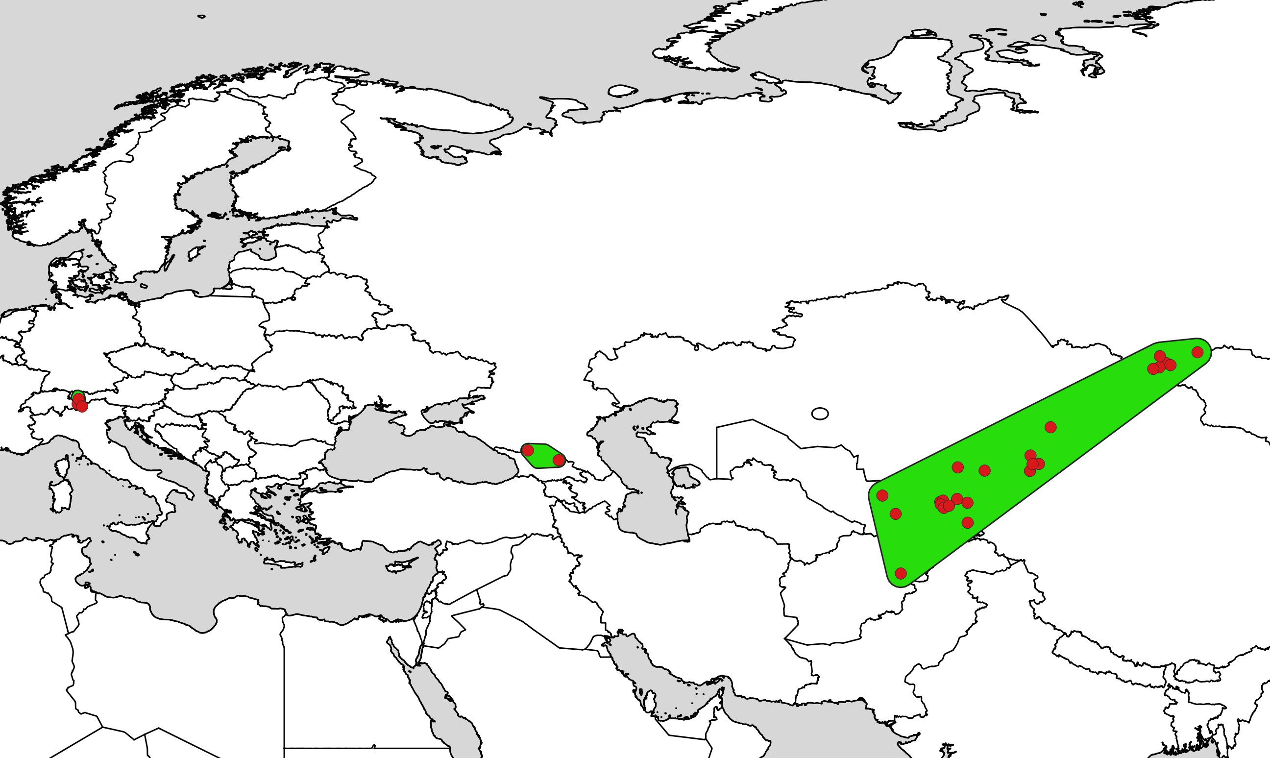 Range map of genus Rohdendorfia. on the localities specified in the article: Barkalov, A.V. & Nielsen, T. R. 2010: Revision of the genus Rohdendorfia Smirnov, 1924 (Diptera, Syrphidae). Norwegian Journal of Entomology 57, 154–161